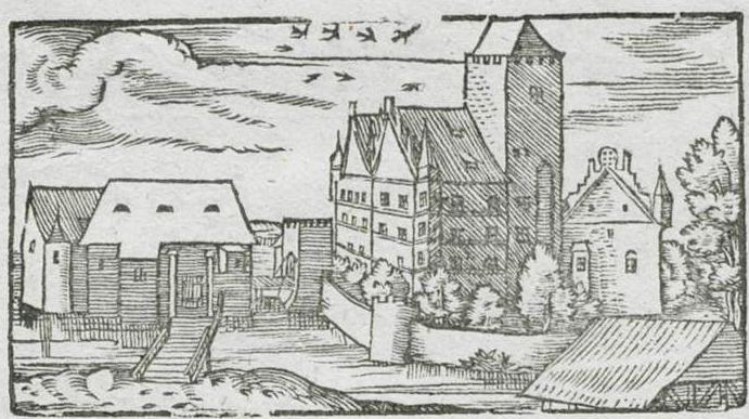 The castle of Schmiechen in bavaria